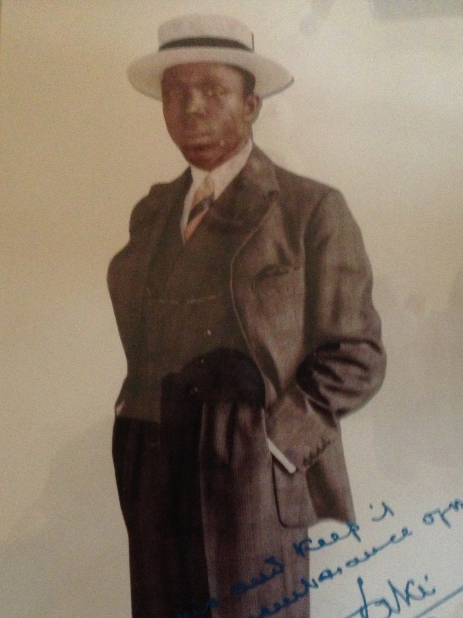 Portrait